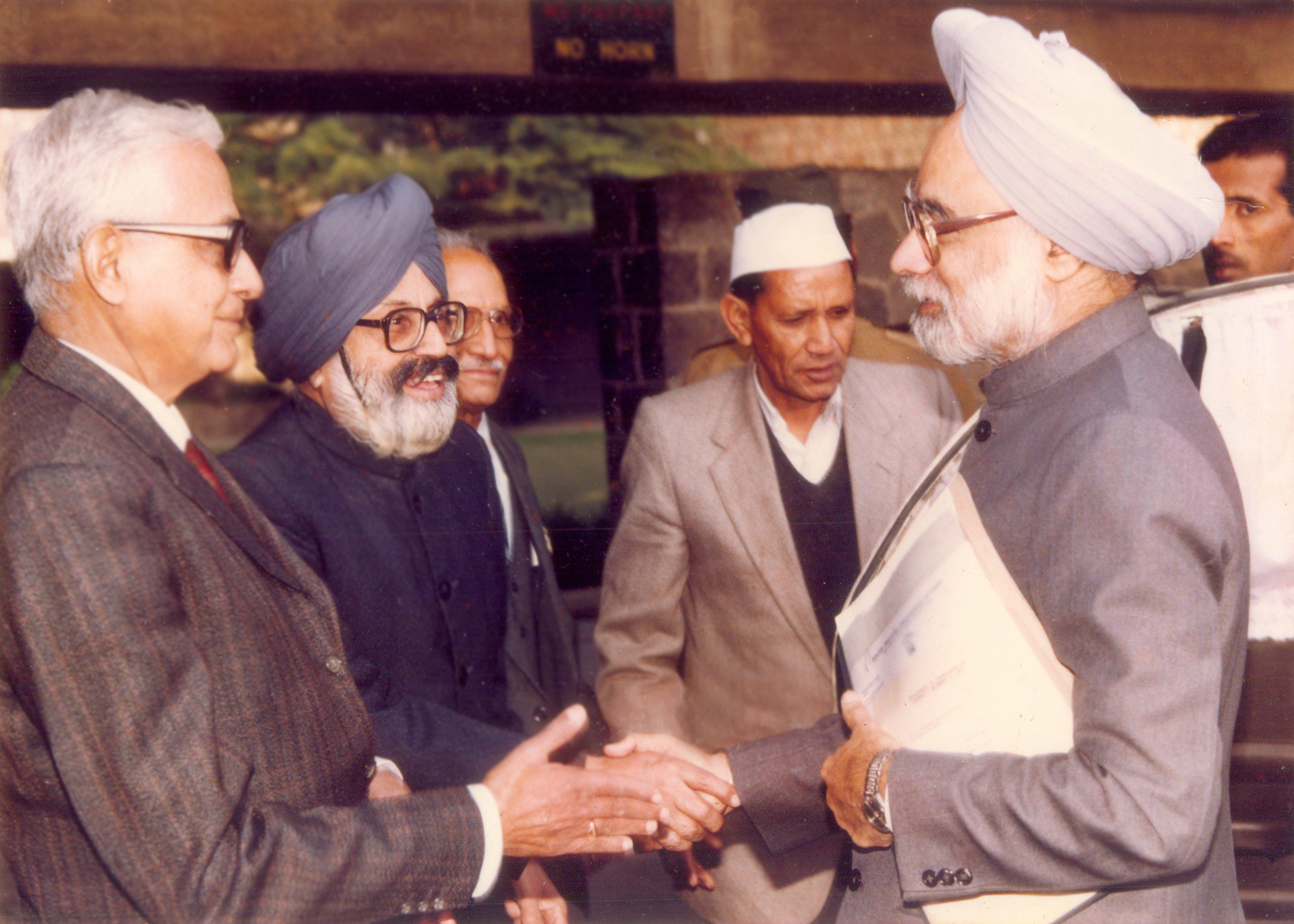 This image was clicked when “Father of Pension Schemes in India”, Late Comrade Parduman Singh met to Prime Minister Dr. Manmohan Singh regarding the welfare of downtrodden peoples of India. He was the known leader to improve social security in India for all ages.